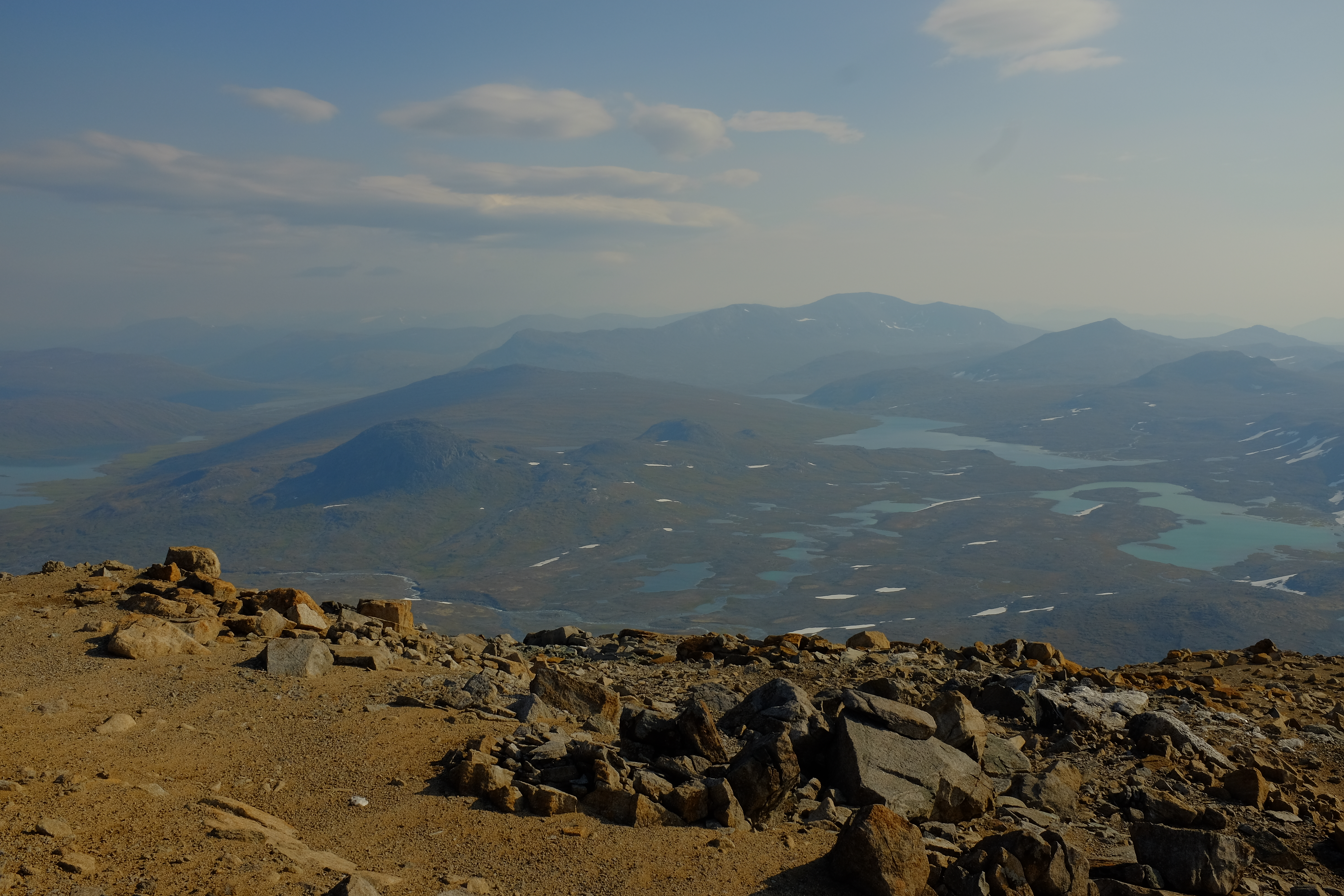 Sulitjelma is a mountain area in Norway and Sweden in the municipalities of Fauske and Jokkmokk. The glaciers form the basis for large watercourses.